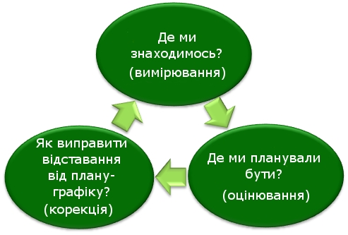 Monitoring and Control project activities